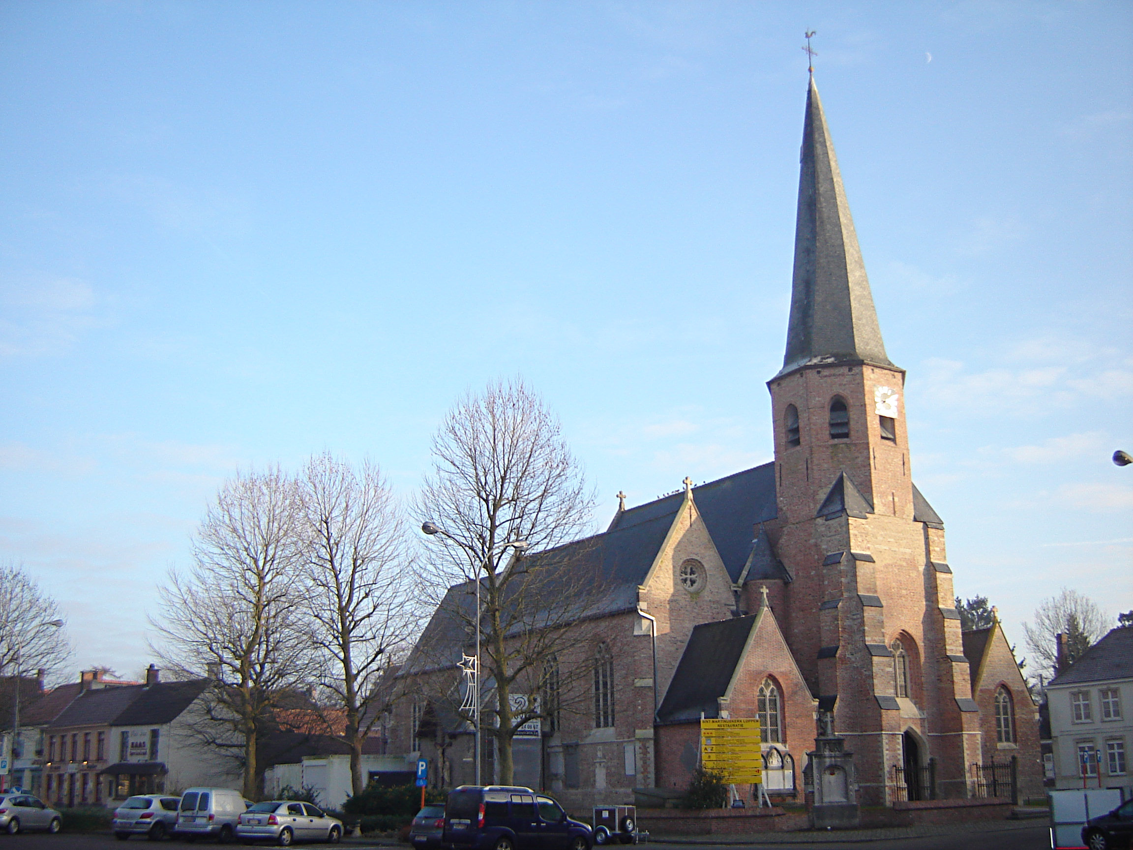 Village square with church of Saint Martin in Loppem. Loppem, Zedelgem, West Flanders, Belgium